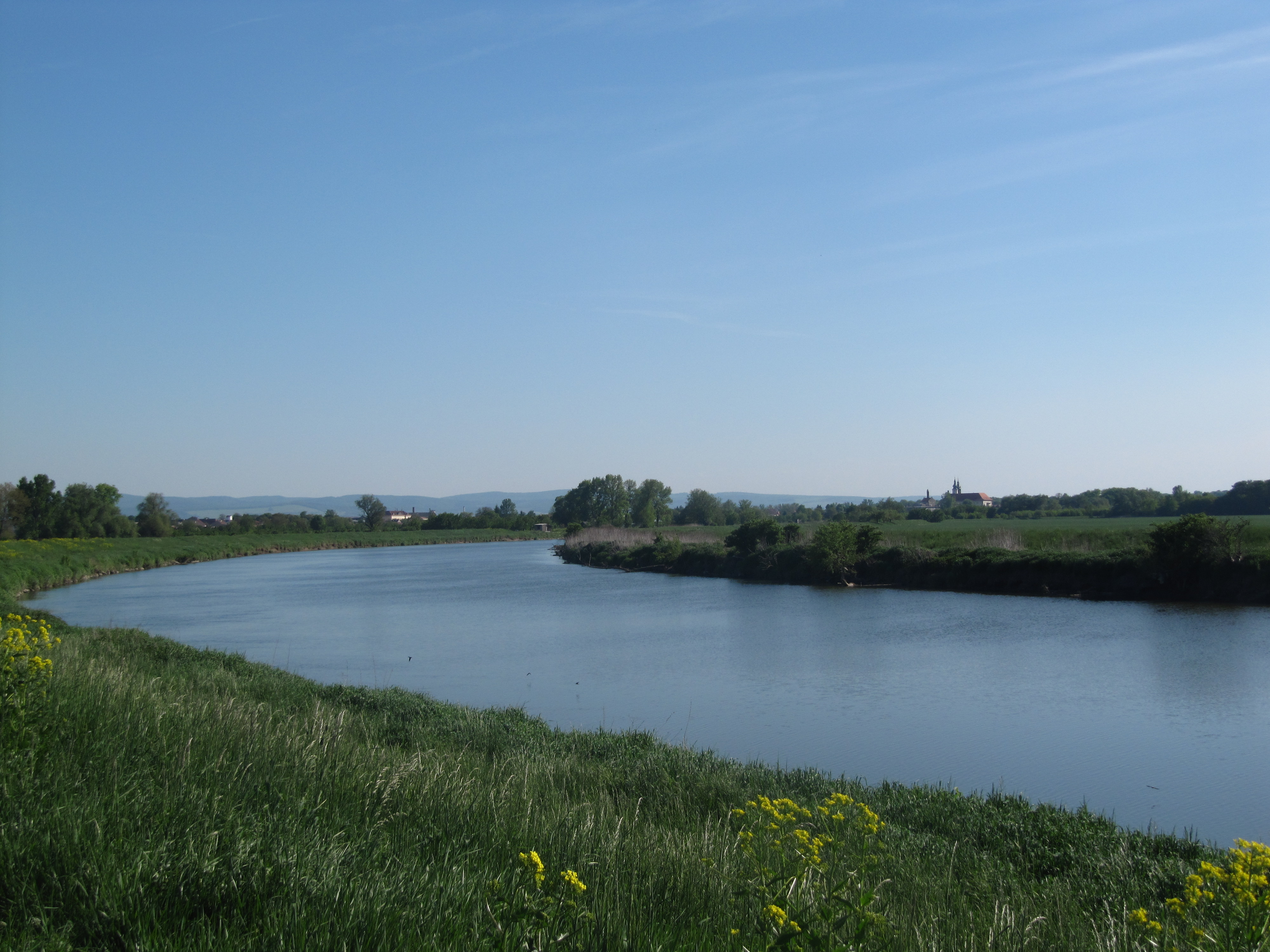 Uherský Ostroh in Uherské Hradiště District, Czech Republic. Morava River before Uhersky Ostroh.